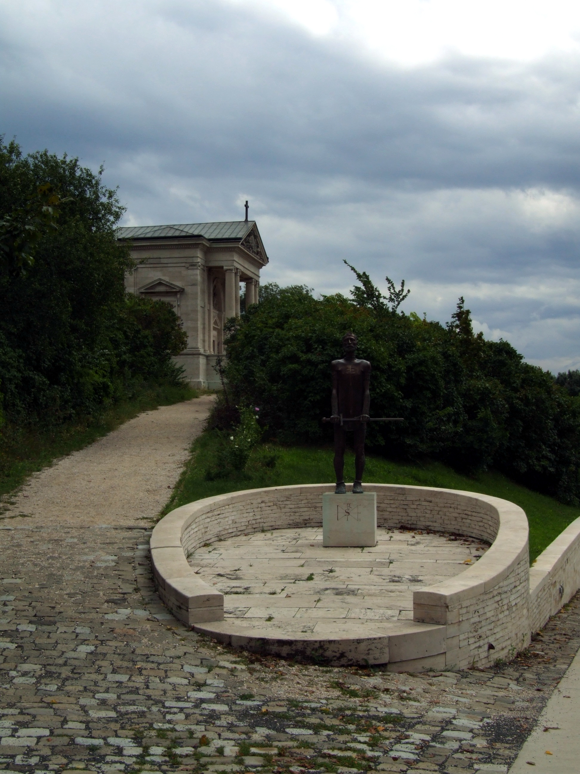 Pannonhalma - statue and the Millennium Monument.